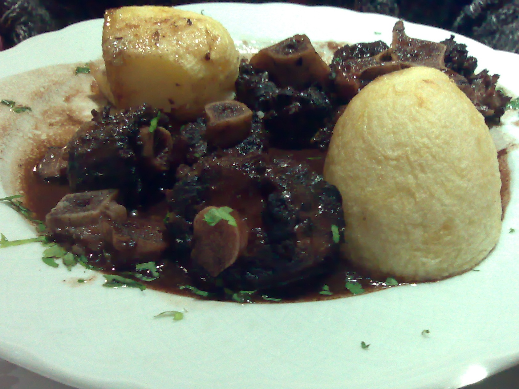 Rabo de toro, a spanish dish photographed in Portugal.